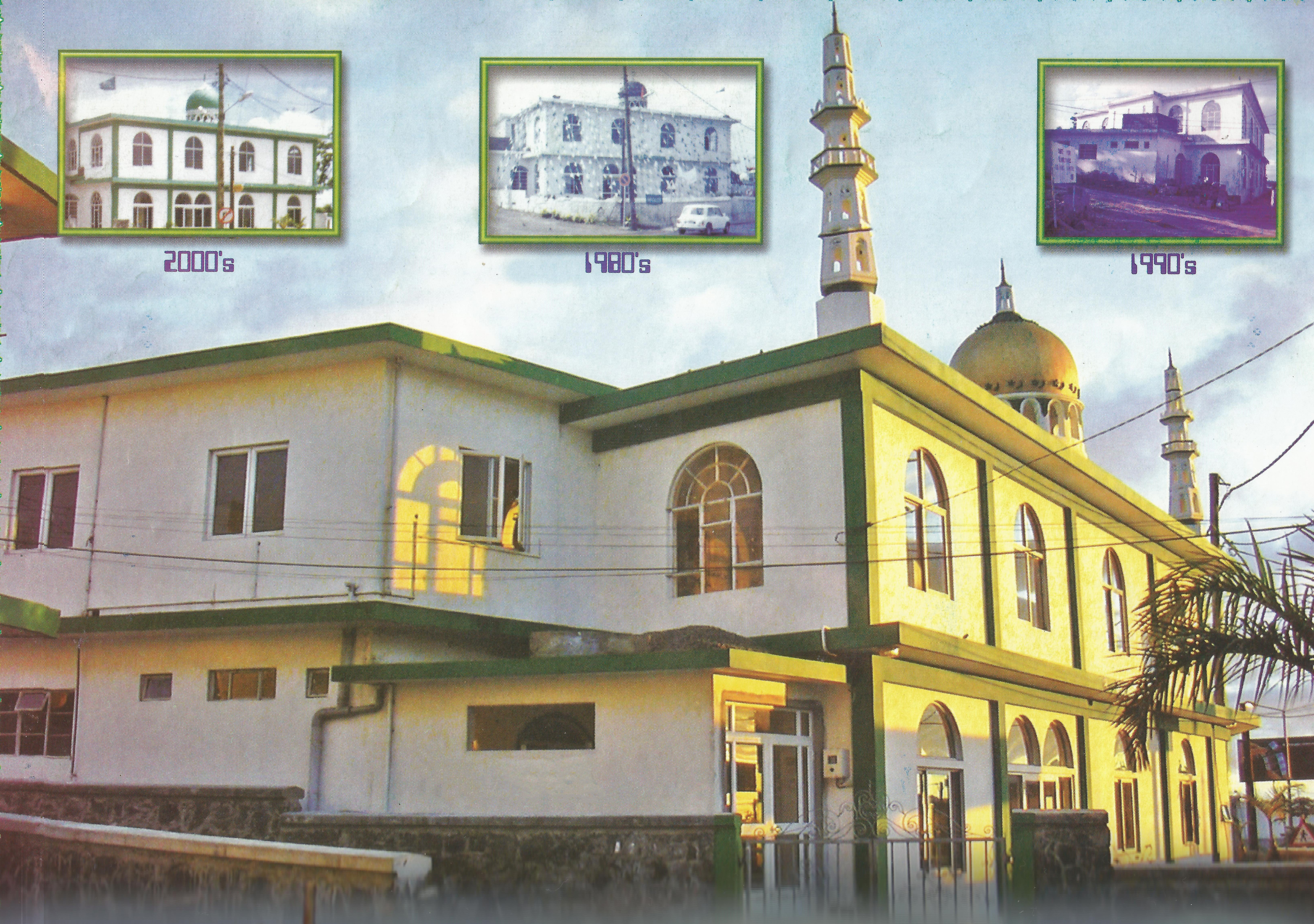 Quartier Militaire Mosque Evolution